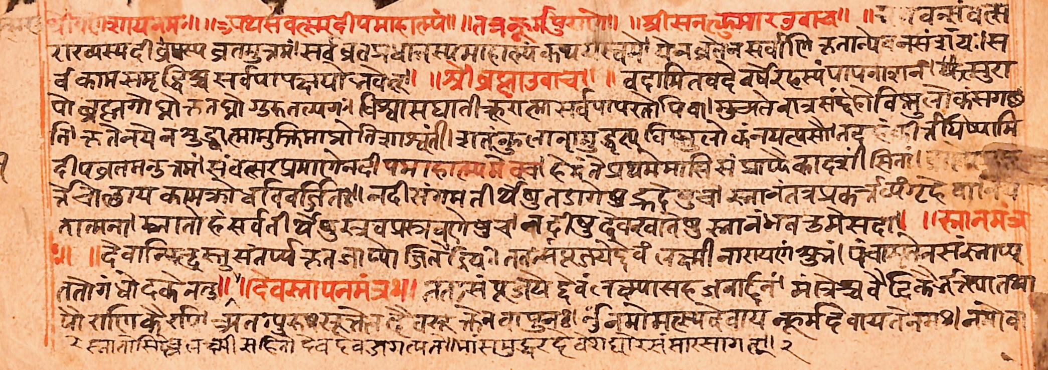 This is a page from the Kurma Purana manuscript. Language: Sanskrit Script: Devenagari This manuscript was acquired in the 19th-century, and was produced in or before the acquisition. The photo above is of a 2D artwork from the text that was itself authored more than 500 years ago. Therefore Wikimedia Commons PD-Art licensing guidelines apply. Any rights I have as a photographer is herewith donated to wikimedia commons under CC 4.0 license.